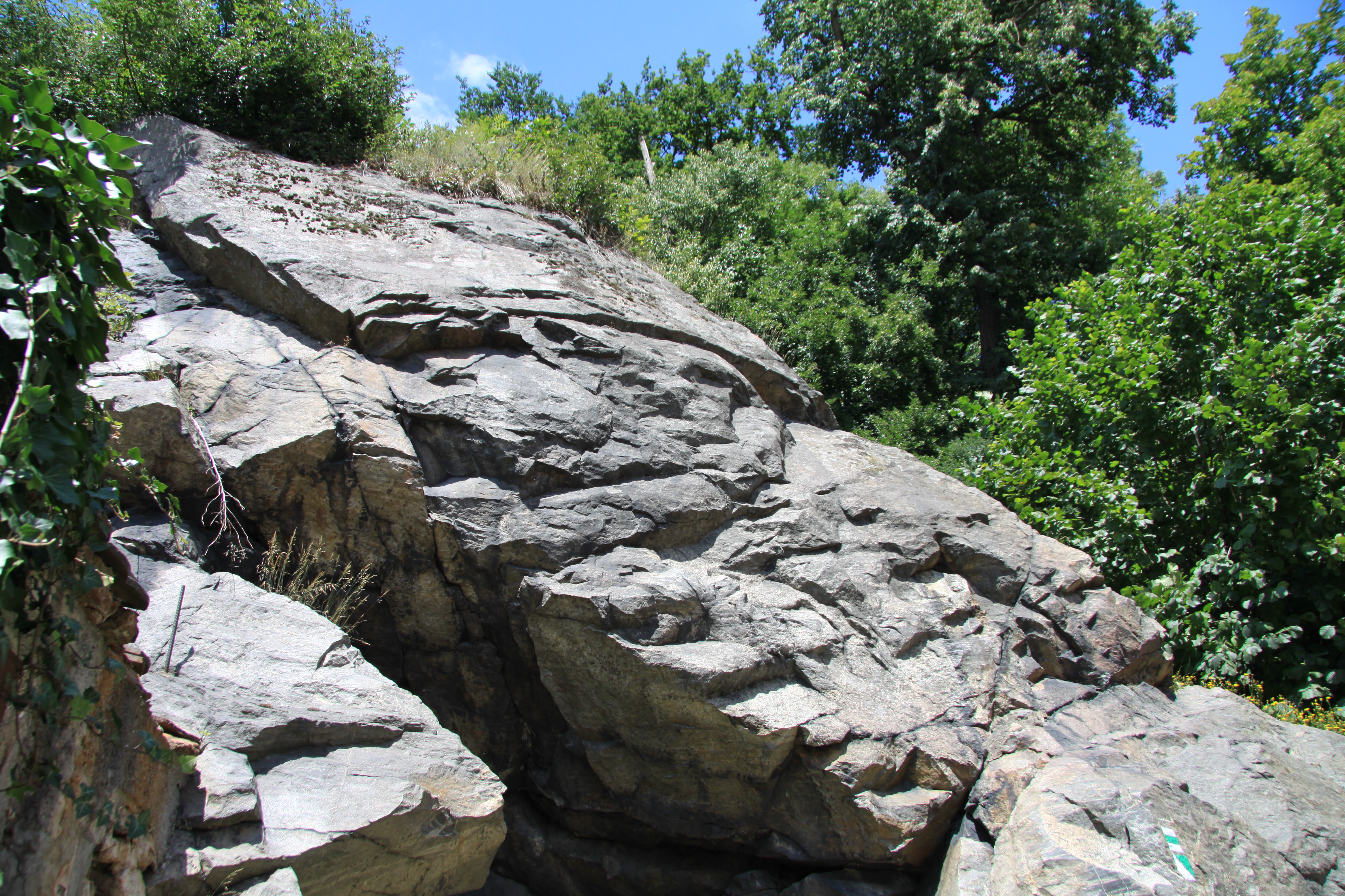 Natural monument Granátová skála in Tábor, Tábor District, Czech Republic - Google Maps - Google Earth